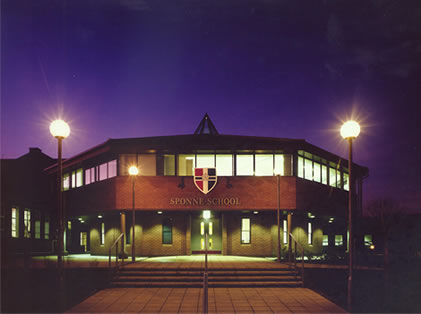 Front of Sponne School